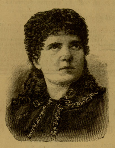 Giuseppina Pasqua (1851-1930)